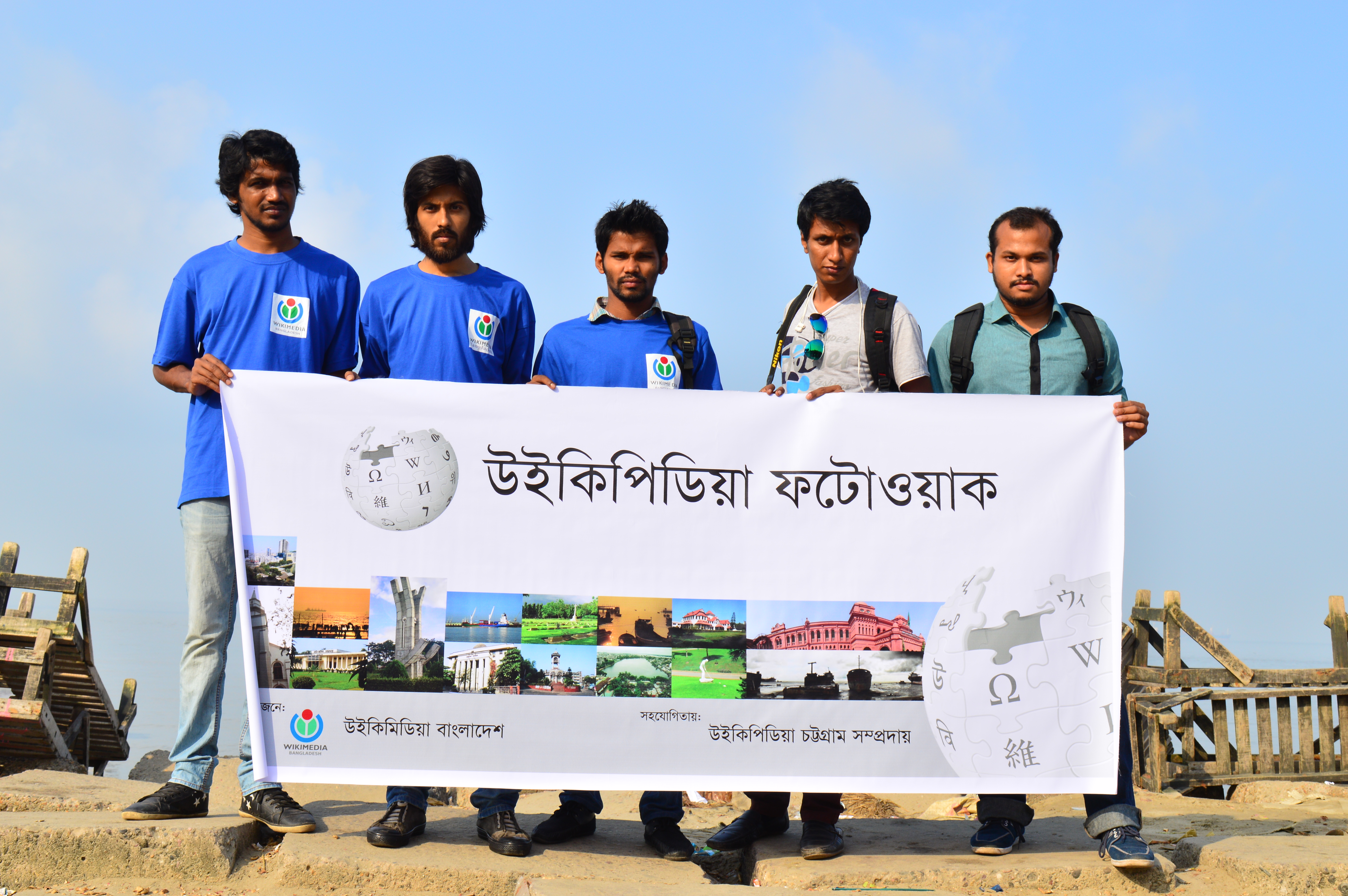 Wikipedians at Wikipedia Photowalk, Chittagong